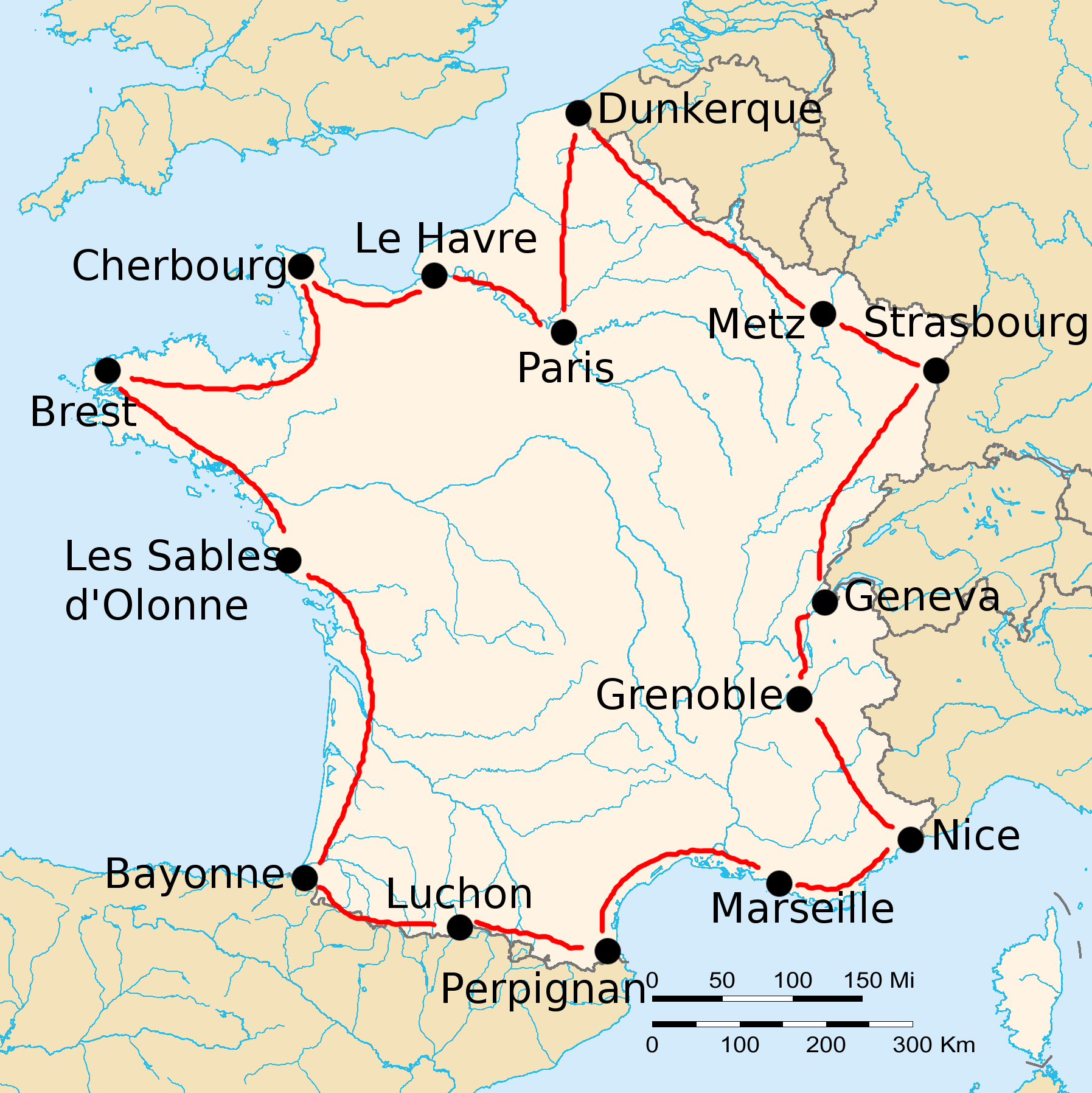 Route of the 1919 Tour de France, starting in Paris, run counter-clockwise.